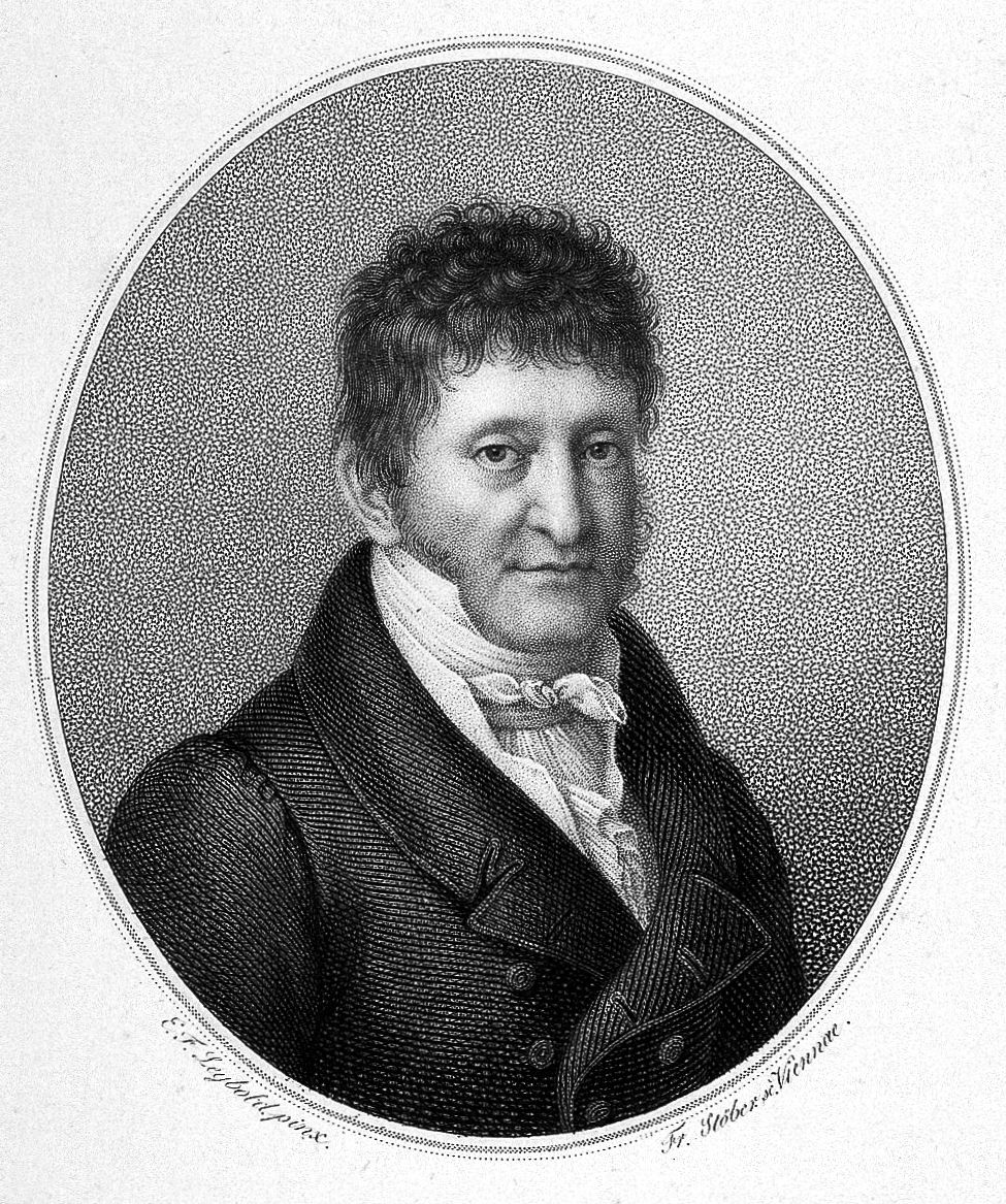 L0008173 Portrait of Leopold Anton Goelis Credit: Wellcome Library, London. Wellcome Images Portrait of Leopold Anton Goelis, made in Vienna, after painting by E.F. Leybold Engraving By: F. Stoberafter: E.F. LeyboldPublished: - Copyrighted work available under Creative Commons Attribution only licence CC BY 4.0